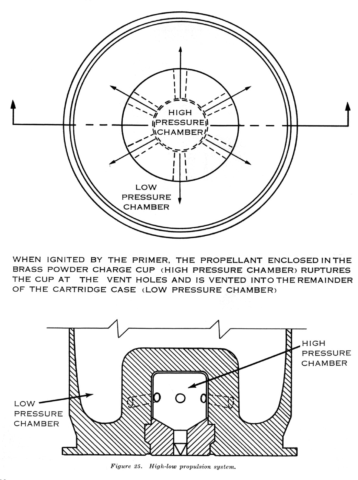 Explanation of how the "High-Low Propulsion System" works for the 40mm Grenades for the M79 and M203